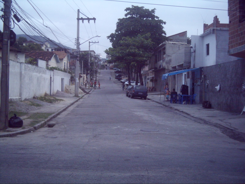 Rua Ferraz (Ferraz Street), in Cascadura, Rio de Janeiro, RJ.